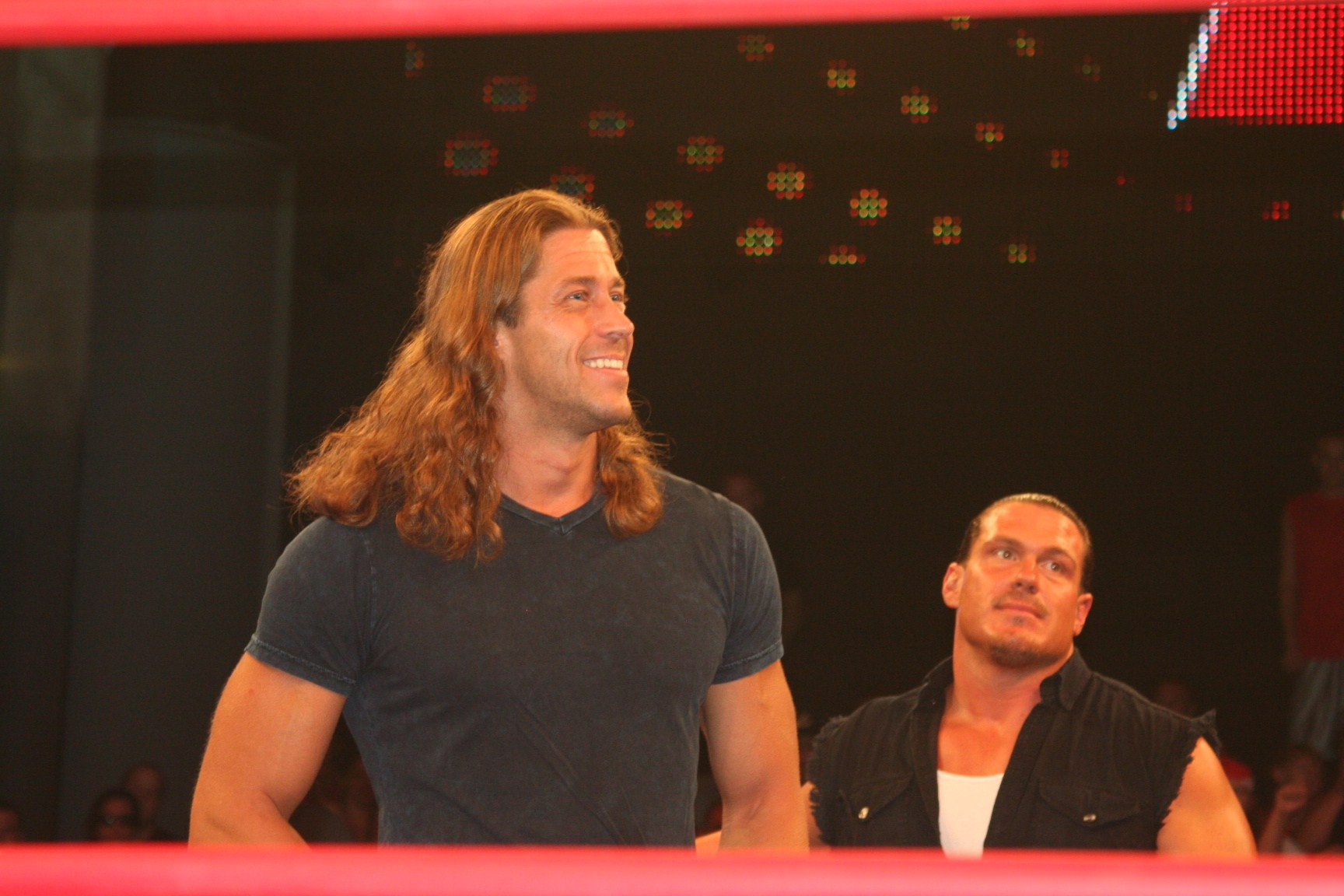 Professional wrestlers Stevie Richards (left) and Rhino (Terry Gerin; right) at a taping of TNA Impact! in July 2010.